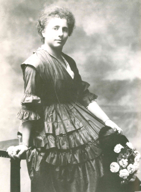 Young Margherita Sarfatti